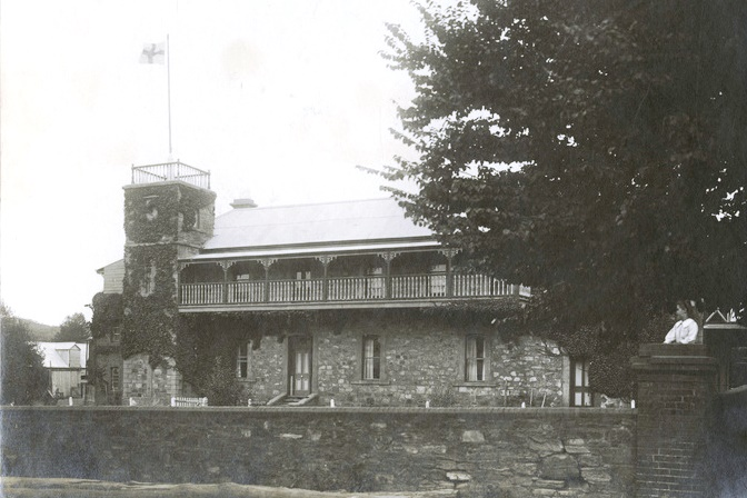 A two-storey building with square turret, Built in 1857 as Hahndorf Academy for T. W. Boehm, second storey and turret added later, became seminary for Lutheran Church in 1877, purchased by D. J. Byard in 1886, run by Byard and H. S. Steer as Hahndorf College; closed 1912